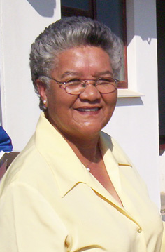 Johanna Stoffels, ex-mayor of Hopefield (SA) and current mayor of Saldanhabaai, South Africa.